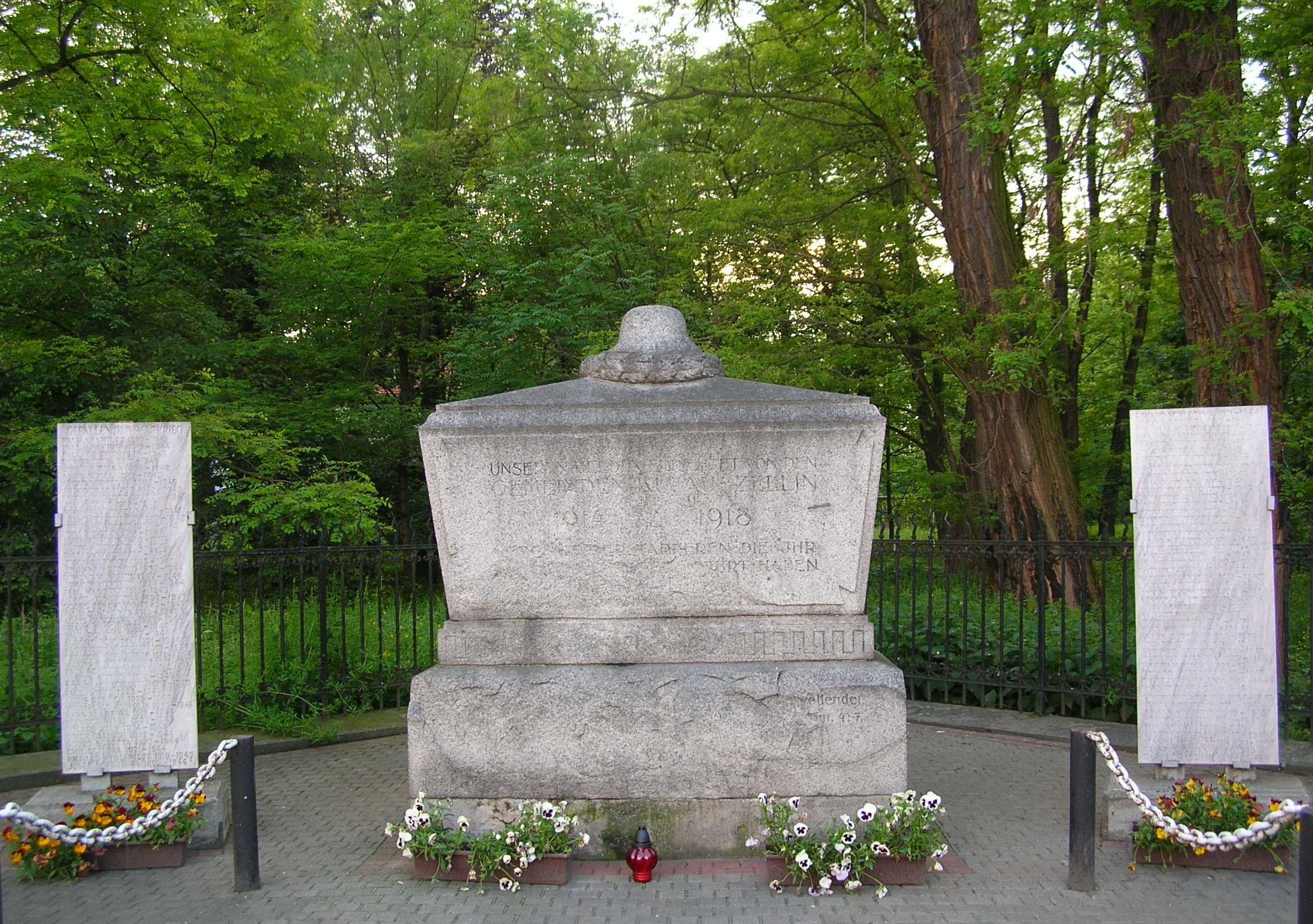 War memorial of the local victims of World War I and II in Kujawy / Kujau in Upper Silesia